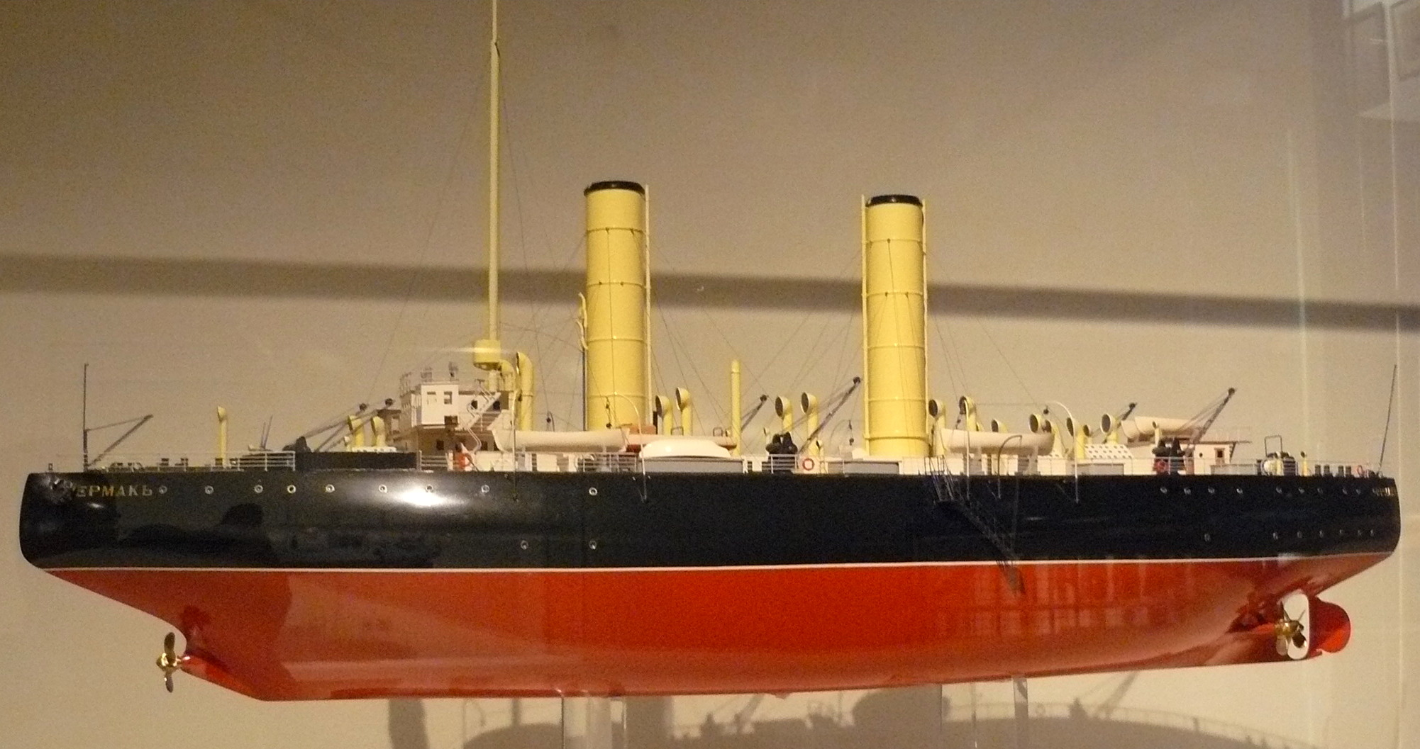 Scalemodel of the Yermak located at the Internationales Maritimes Museum Hamburg.